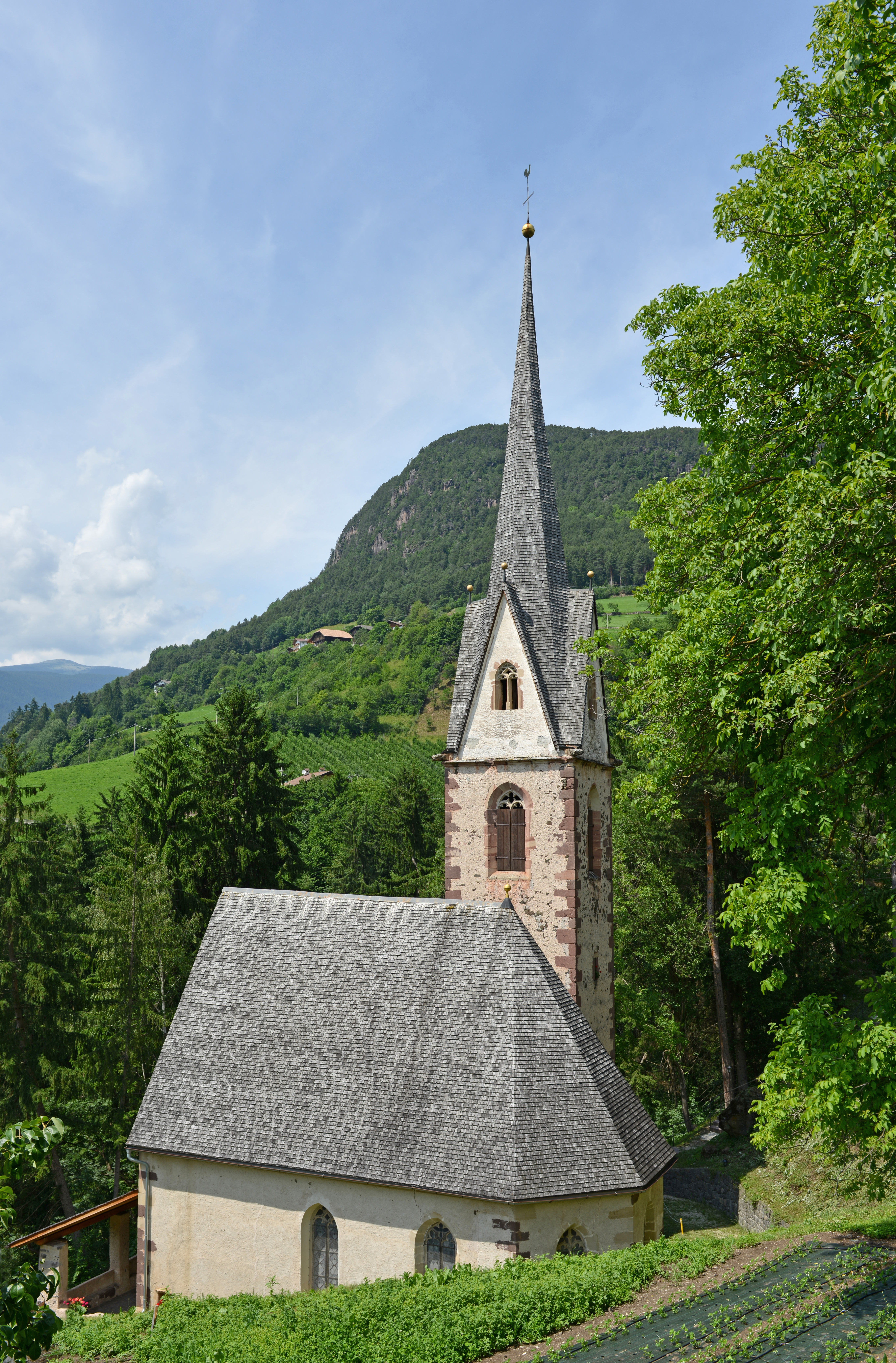 Church of Vigilius of Trent in Kastelruth